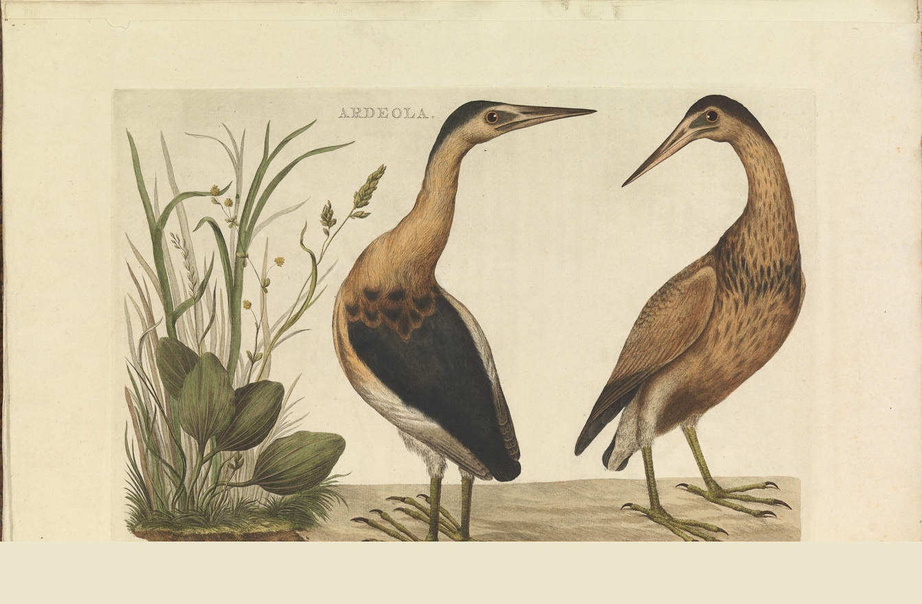 Plate 29 from the Nederlandsche vogelen by Nozeman and Sepp.